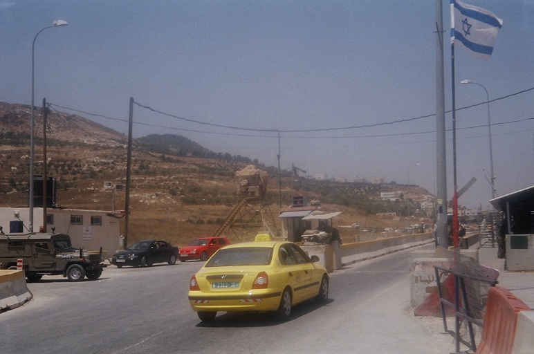 Cars in Huwwara Checkpoint, July 2005